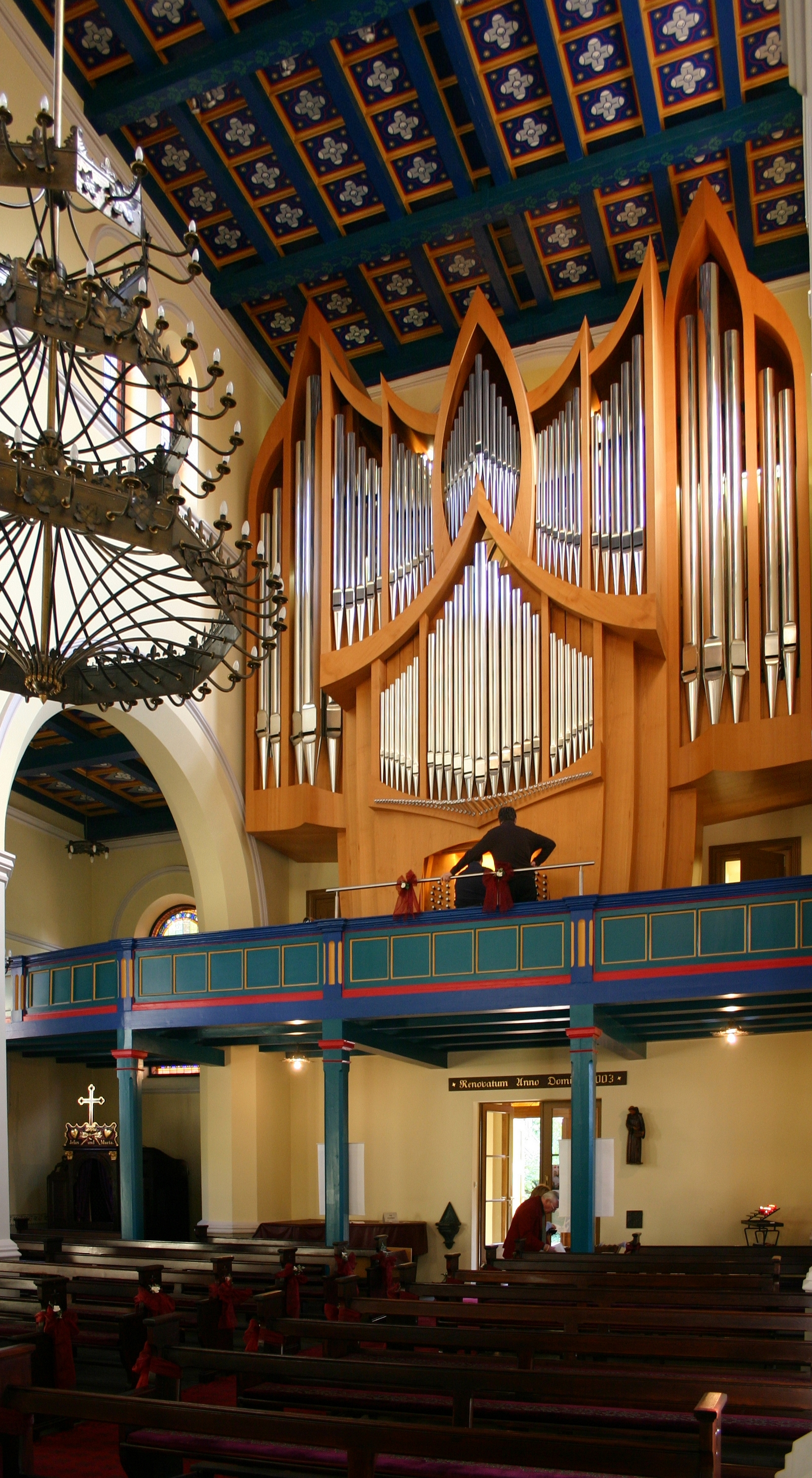 Organ of "St. Marien am Behnitz" in Berlin-Spandau